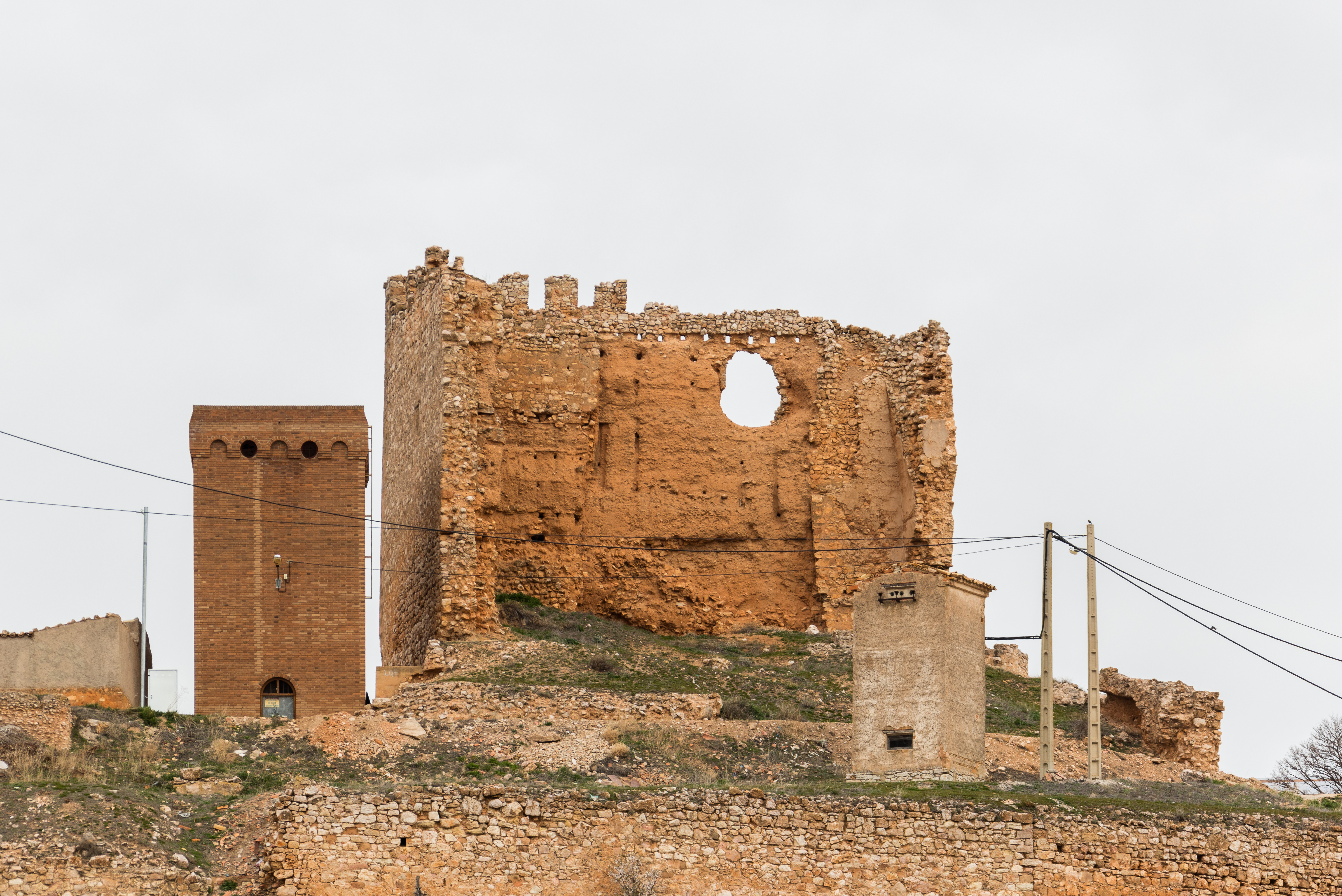 Castle of Sisamón, Zaragoza, Spain